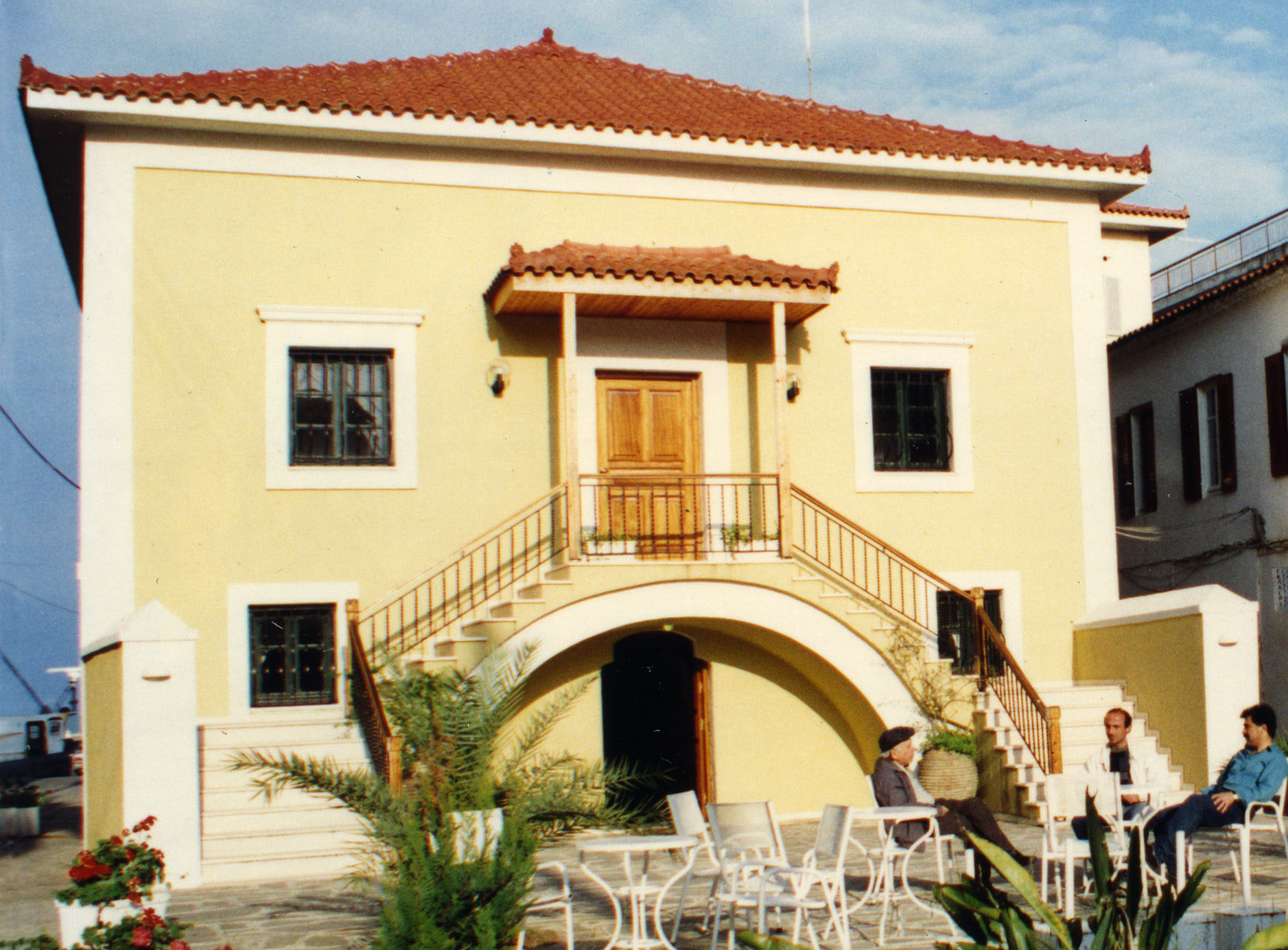 The building of Theofaneios School, Preveza, Greece. View from the west.